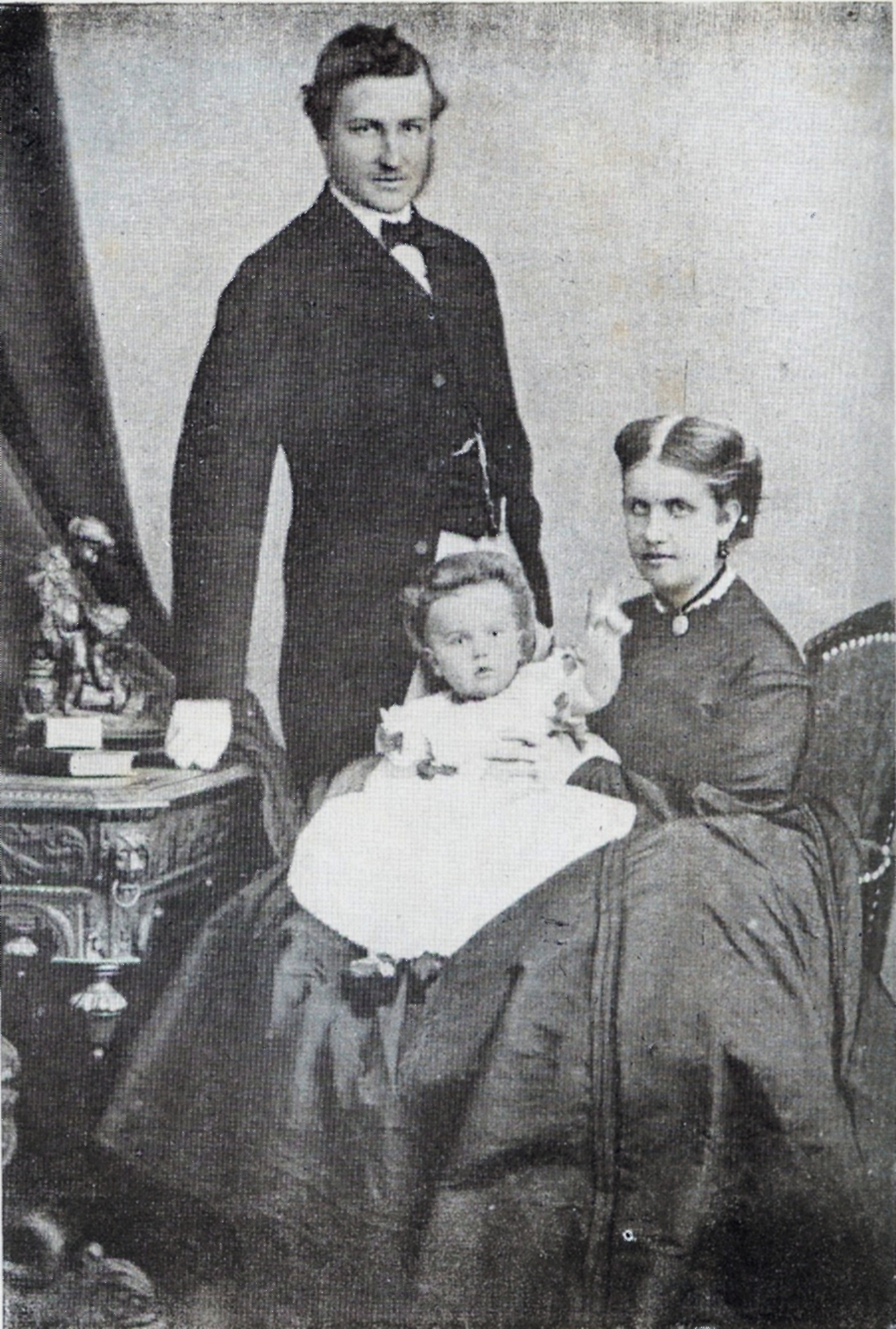 The Duke and the Duchess of Saxony - Ludwig August of Saxe-Coburg and Gotha and Leopoldina of Braganza - and their eldest son, the Prince Pedro Augusto.